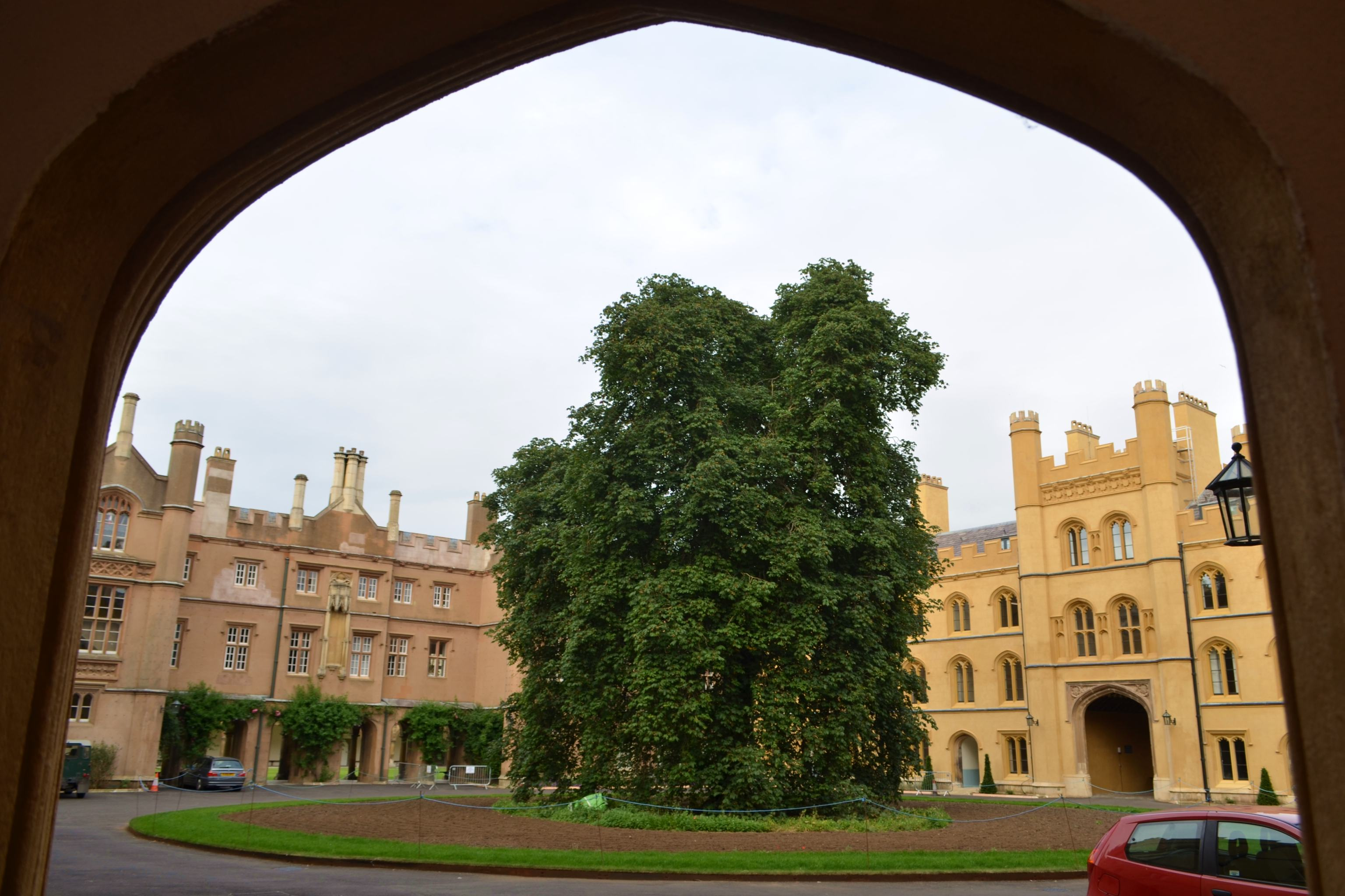 North and east ranges, and chestnut tree of New Court, Trinity College, Cambridge, viewed through a doorway, after 2016 refurbishment.